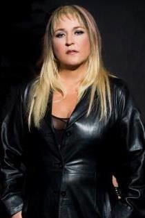 Lana Tokovic